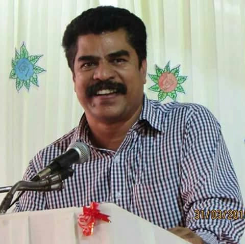 Prof.H.Mujeeb Rahman